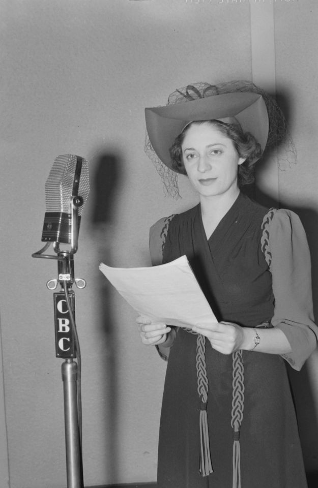 We see Mrs. Ethel Stark, head of the "Montreal Women's Symphony Orchestra" standing behind a microphone in a studio of the "Canadian Broadcasting Corporation" (C.B.C.).